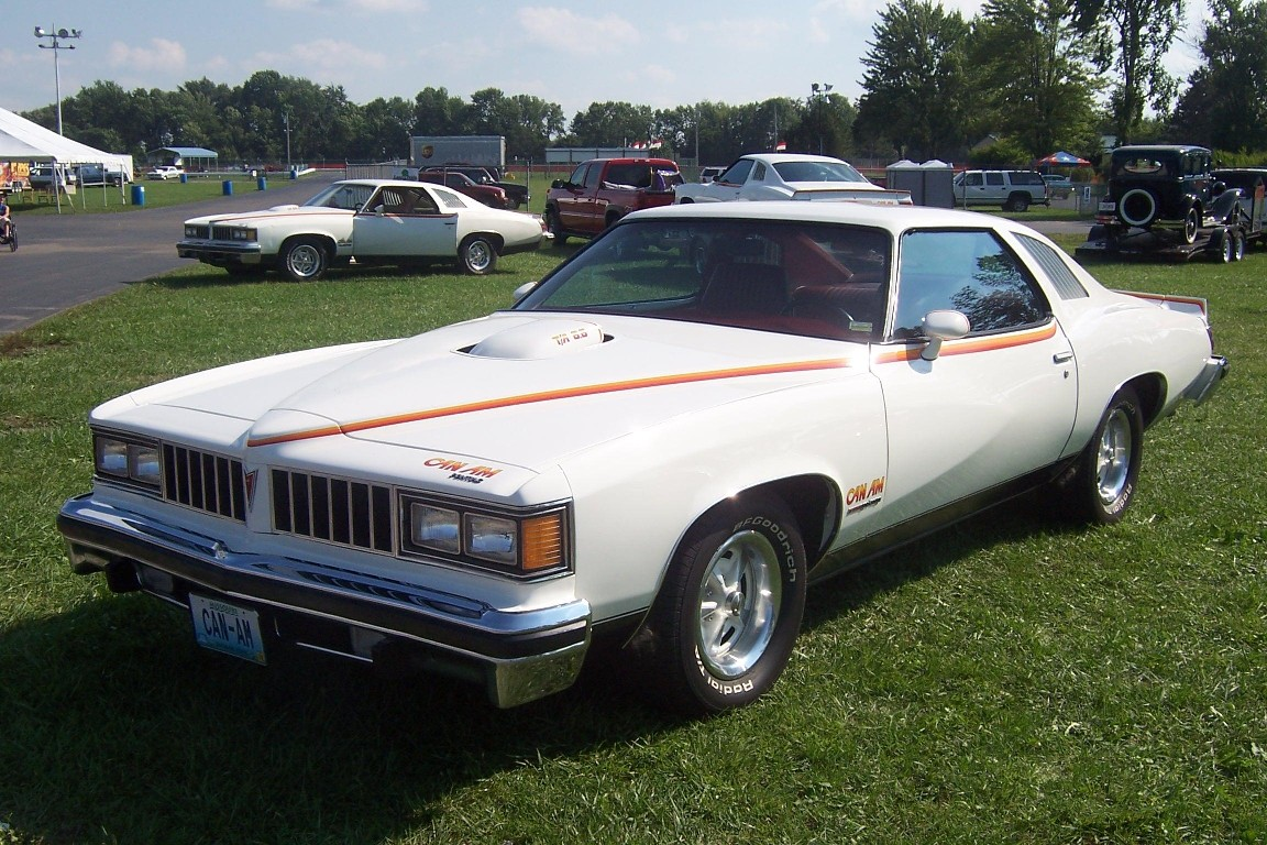 This picture was taken toward the end of the 2007 Pontiac Nationals at Norwalk, Ohio. This year, a 30th Anniversary Reunion was held here, and 16 Can Ams came. 13 Can Ams were able to be displayed (3 were racing).